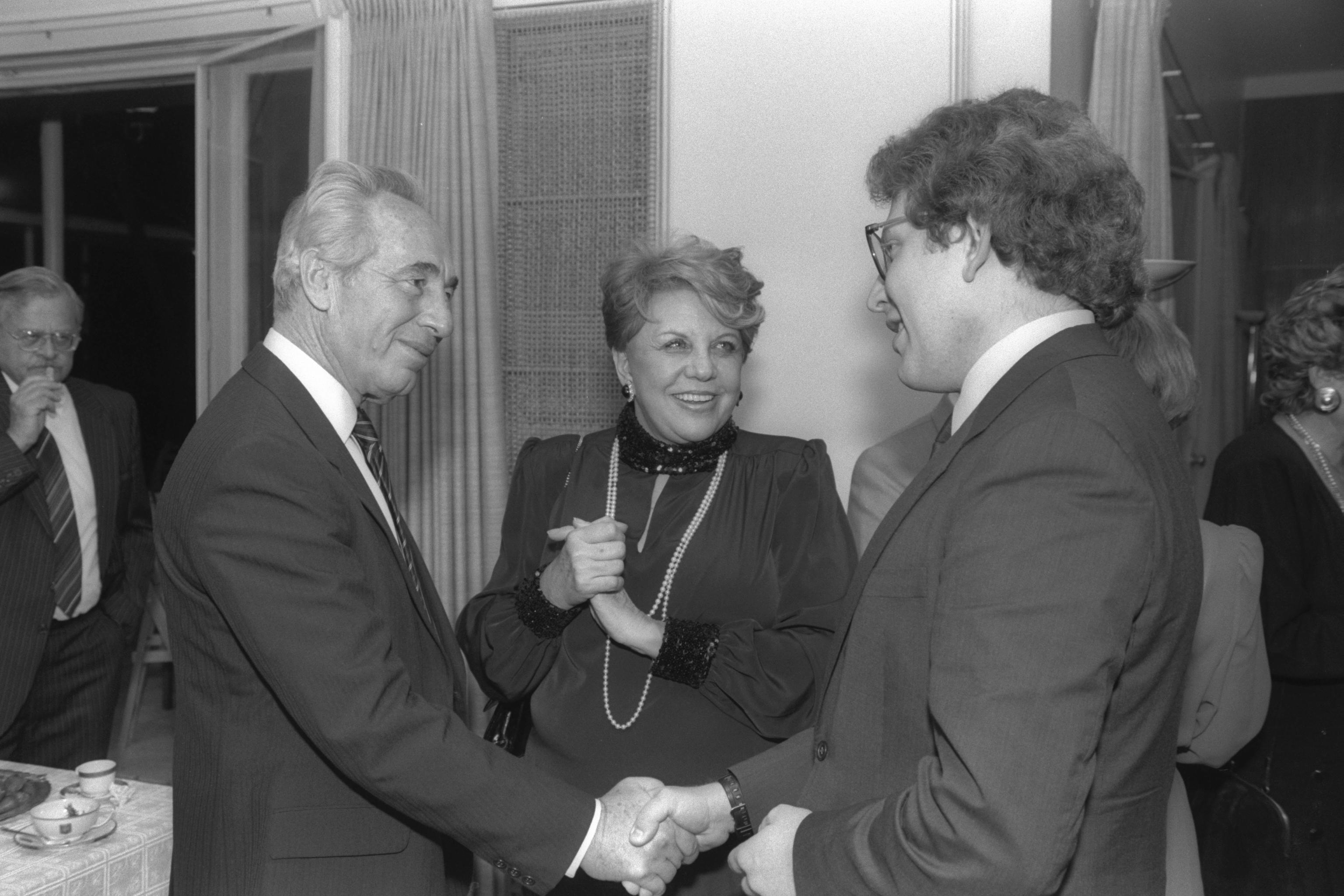 P.m. Shimon Peres (l) receiving Israeli violinist Shlomo Mintz arriving to reception given by p.m. in honor of conductor Zubin Tehta's 50th birthday. Mira Avrech in c.